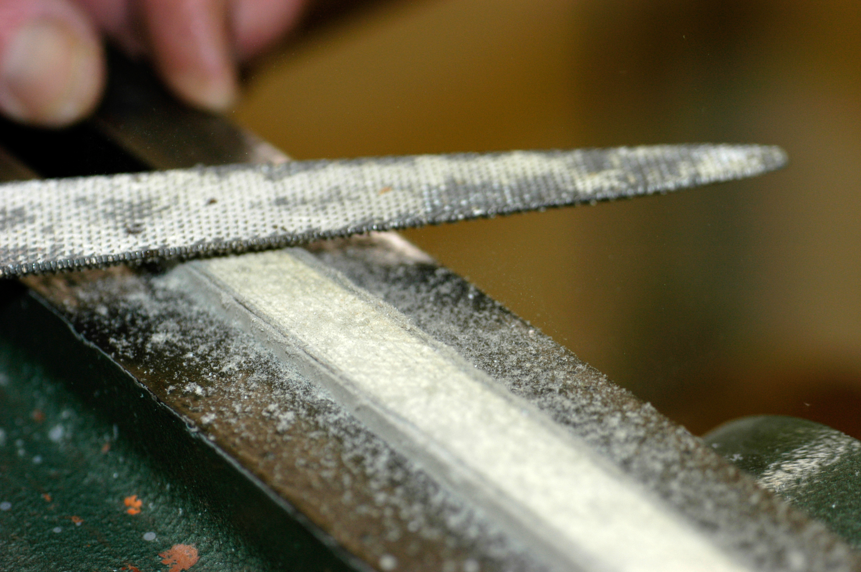 Roughing the spine of a book for glueing it